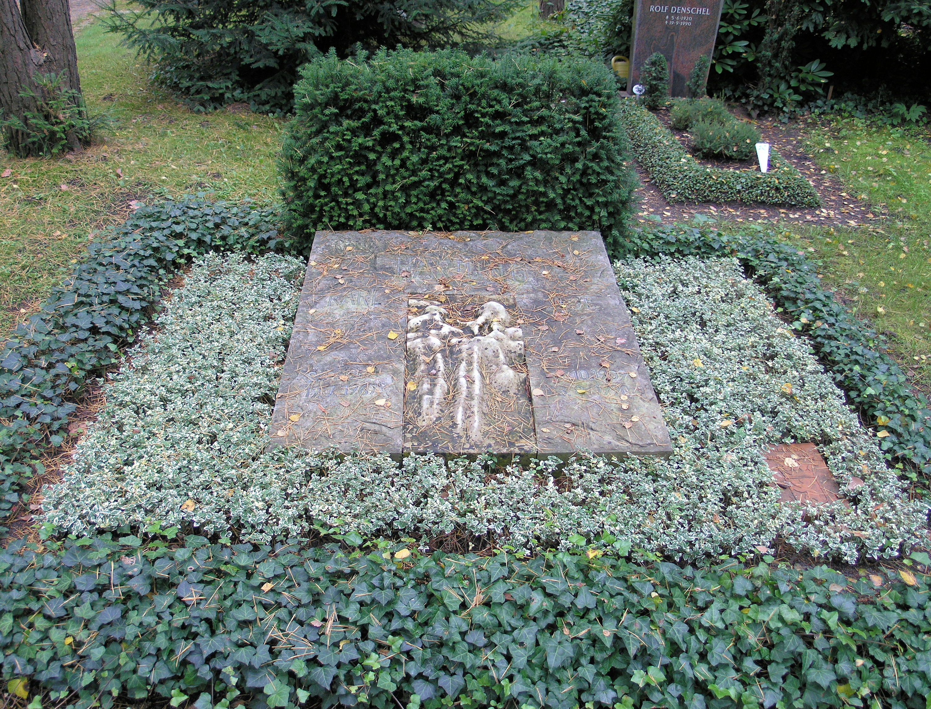 "Ehrengrab" (grave of honor), Karl Hartung, Potsdamer Chaussee 75, Berlin-Nikolassee, Germany Koordinate:52°25′23″N 13°12′38″E / 52.42306°N 13.21056°E